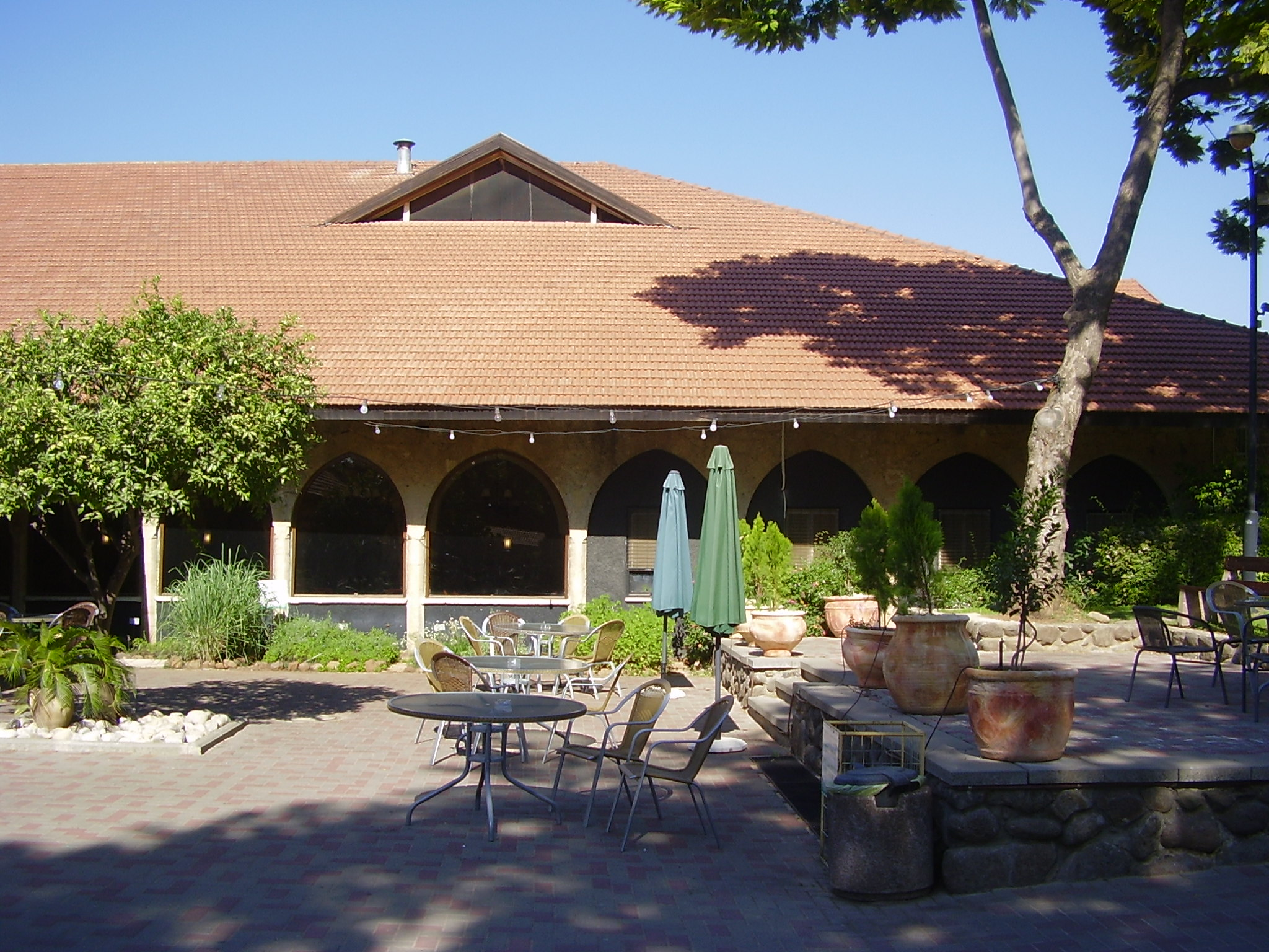 hagoshrim hotel in kibbutz hagoshrim